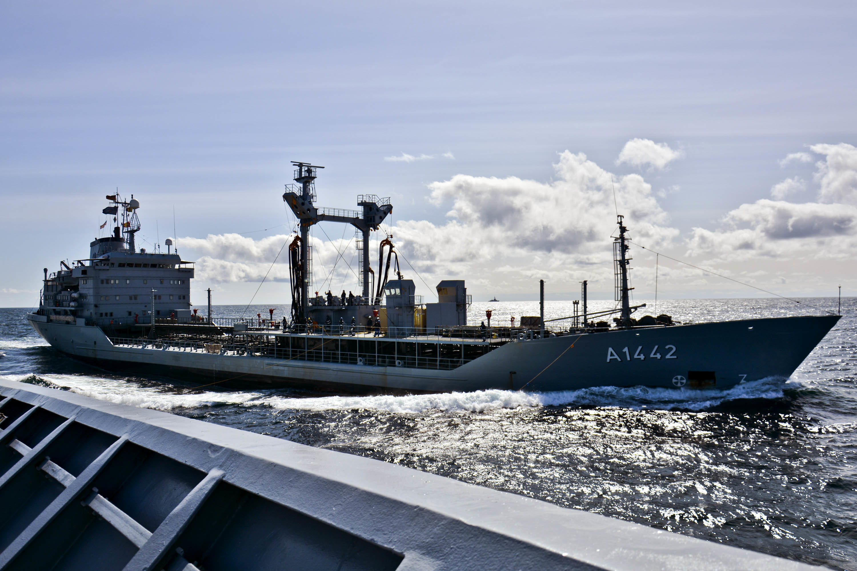 150510-N-IY633-059 ATLANTIC OCEAN (May 10, 2015) – Standing NATO Maritime Group 2 (SNMG2) German oiler FGS Spessart (A 1442) steams alongside SNMG2 flagship USS Vicksburg (CG 69) for an underway replenishment during exercise Dynamic Mongoose. Dynamic Mongoose is an annual anti-submarine warfare (ASW) exercise hosted by NATO Submarine Command aimed at enhancing Alliance ASW ability and techniques. Submarines from Germany, Norway, Sweden, and the United States are participating with surface ships from Canada, Germany, France, the Netherlands, Norway, Poland, Spain, Turkey, the United Kingdom, and the United States. (U.S. Navy photo by Mass Communication Specialist 2nd Class Amanda S. Kitchner/Released)